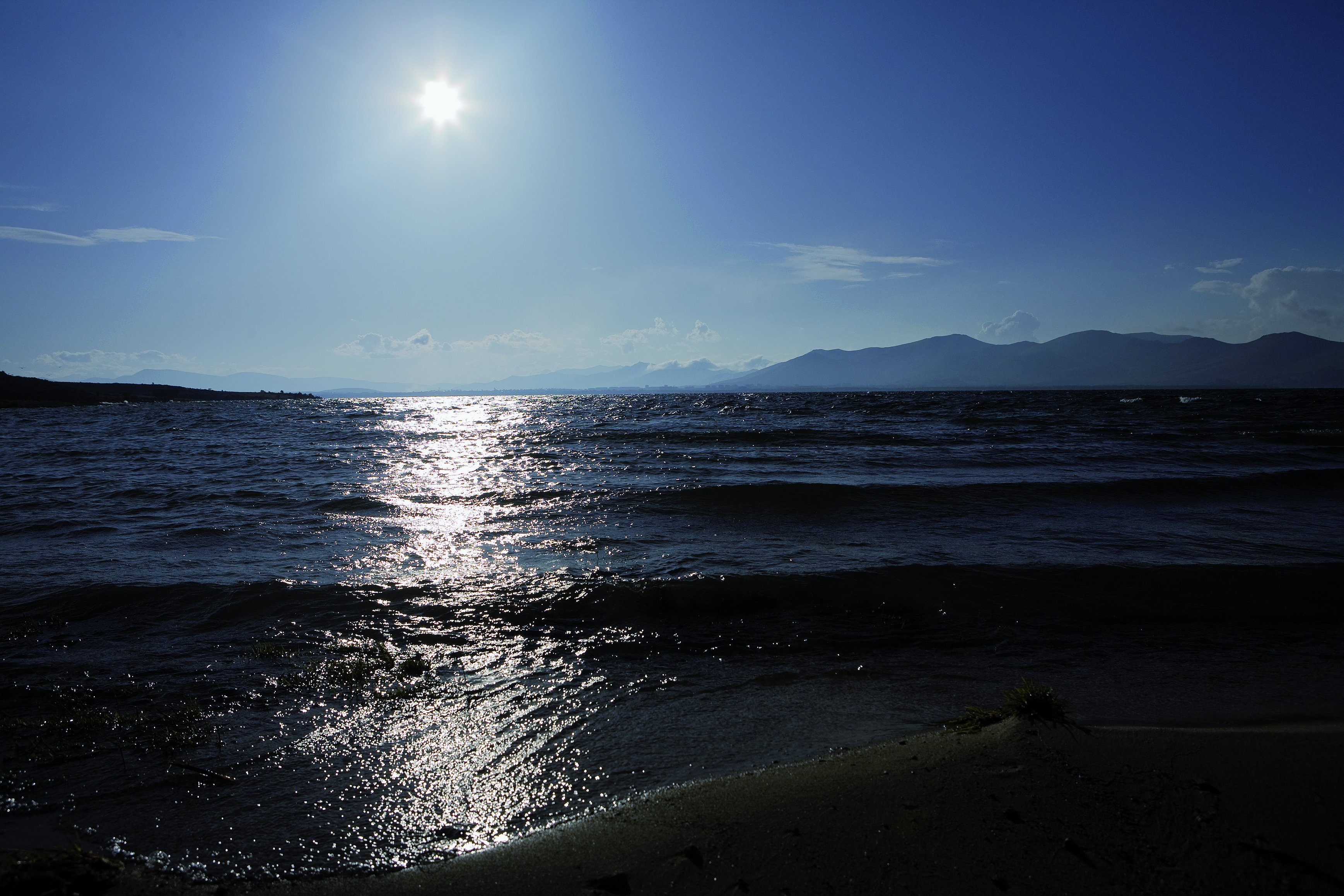 Lake Sevan